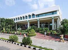 B.S. Abdur Rahman University